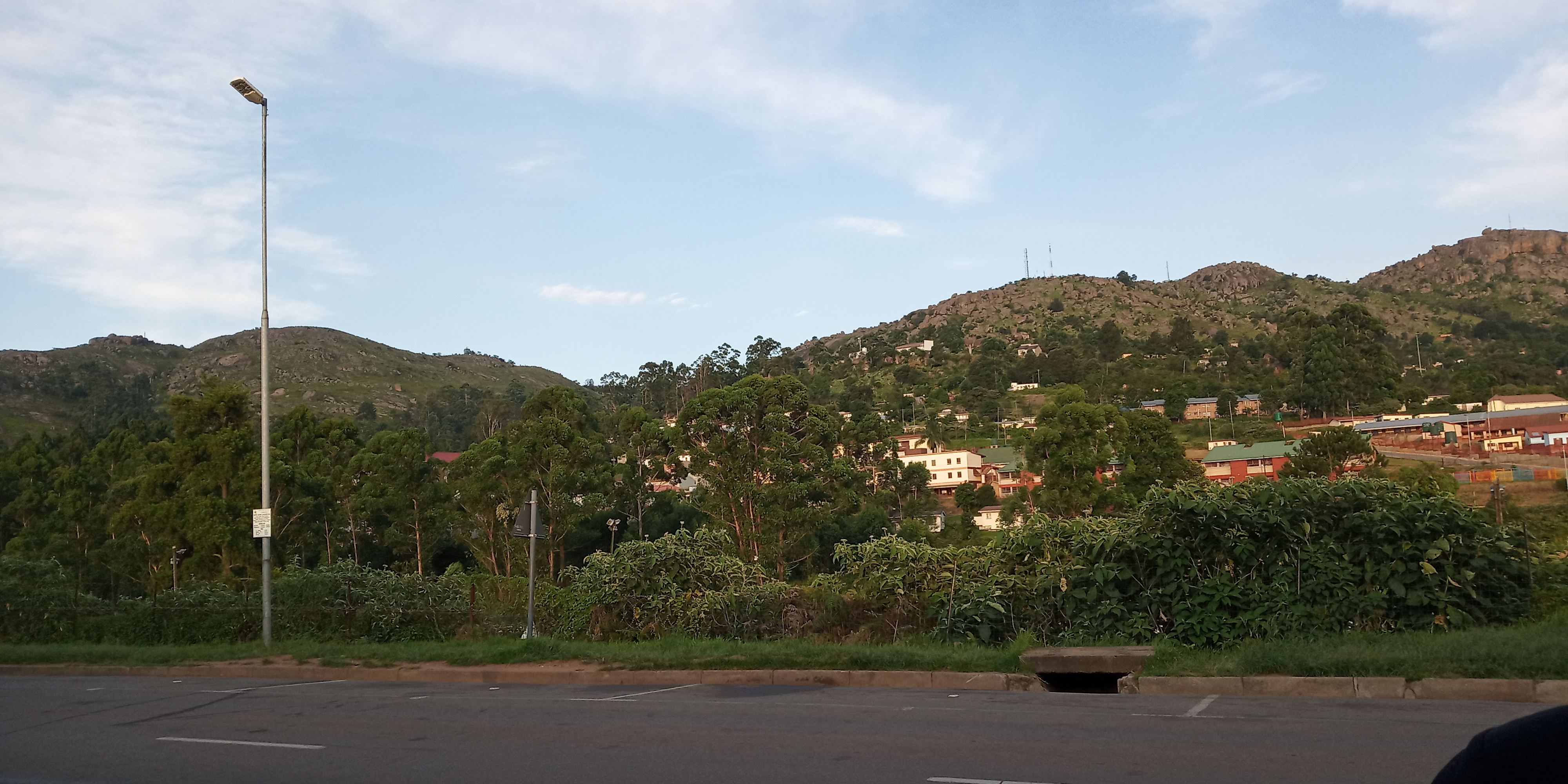 A photo of eSwatini's capital landscape This is an image with the theme "Play" from: Eswatini